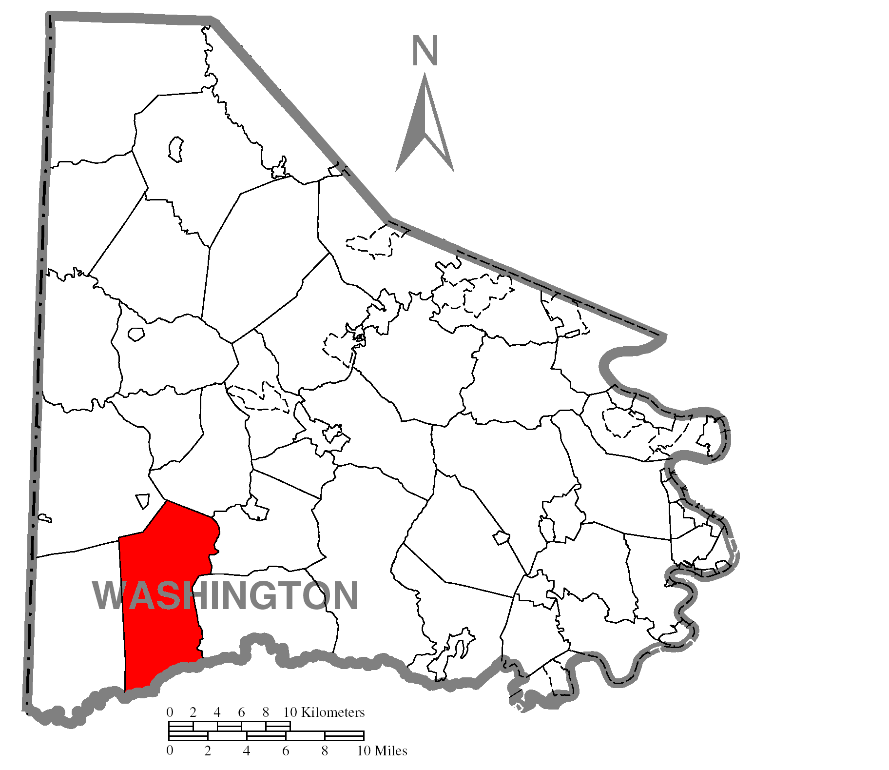 Map of Washington County higlighting East Fineley Township.